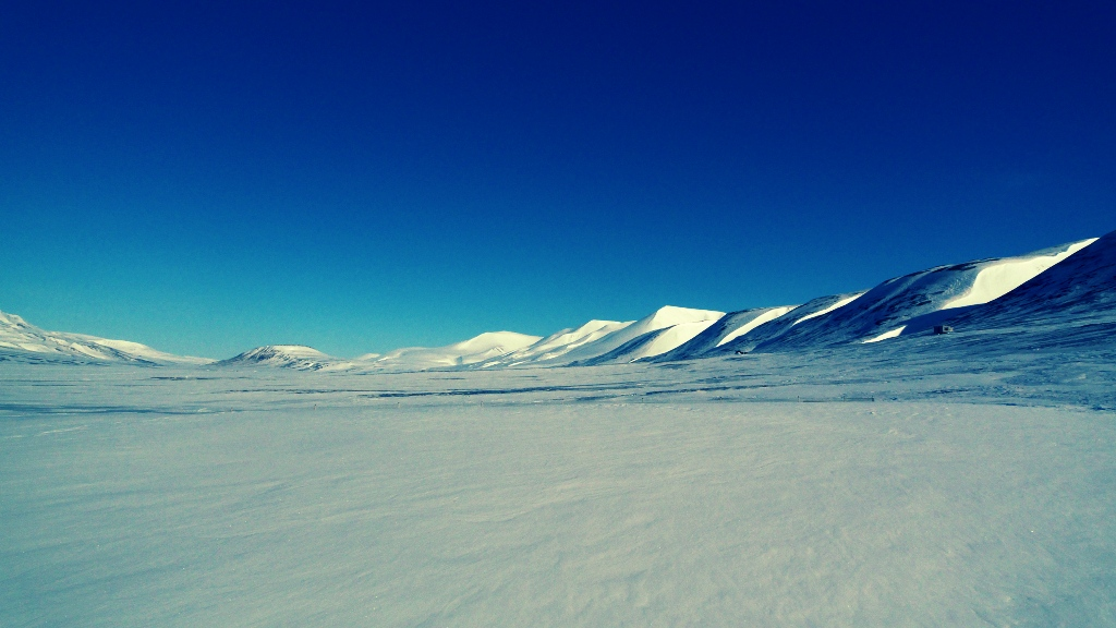 Adventdalen, a valley on the island of Spitsbergen, Norway.